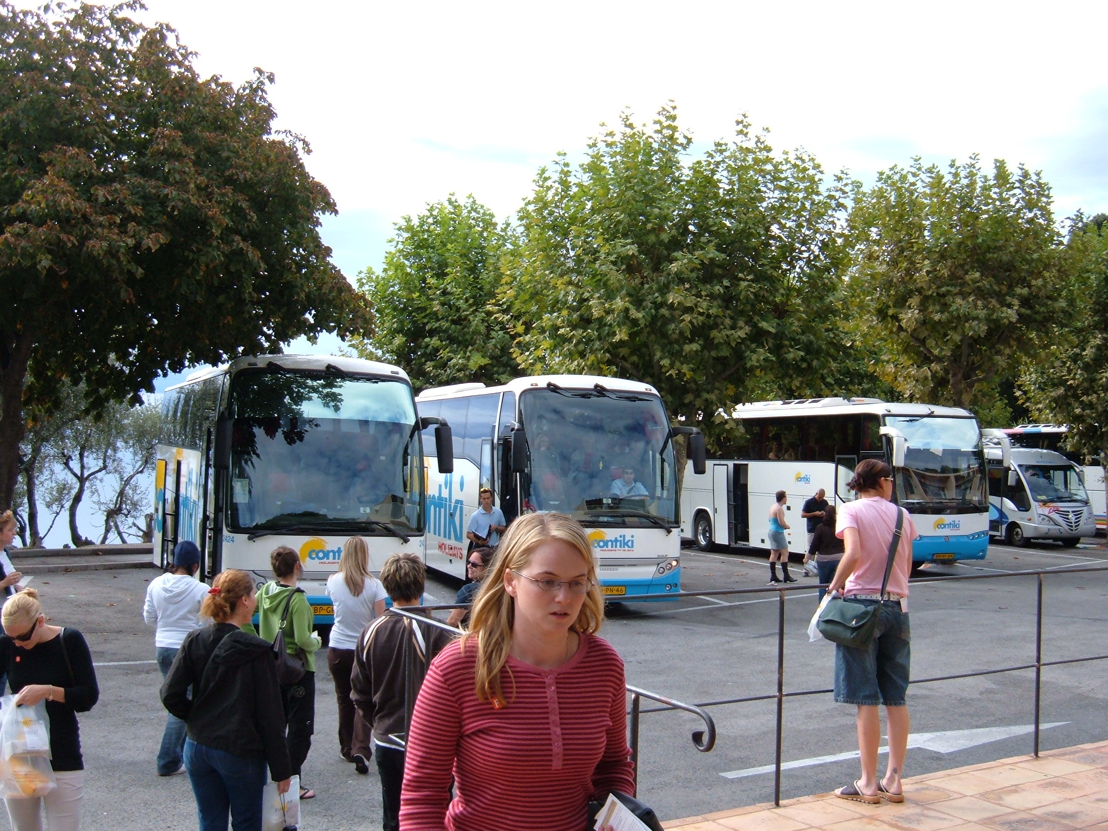 A trio of Contiki Tours buses in the parking lot of the Fragonard perfume factory in Èze, France, for three different European tours. These buses are not limited to a specific country as Contiki has tours all over Europe. Different tours may cross paths in the same locations due to the itineraries and may even stay in the same hotels. The bus I rode on for this particular tour is on the left. The sharp-eyed may notice that there is a man dressed in drag near the bus on the right, I don't know why, but I'm guessing because of a bet or dare. From left to right: Berkhof Axial AH, Berkhof Axial AH, Mercopolo, Irisbus Daily chassis bus.